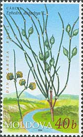 Stamp of Moldova